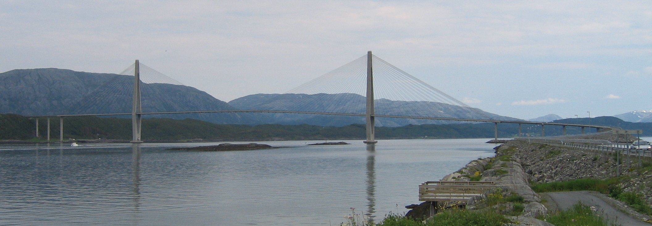 The bridge "Helgelandsbrua" in Nordland, Norway. Picture taken by user:ZorroIII on 2006-07-02